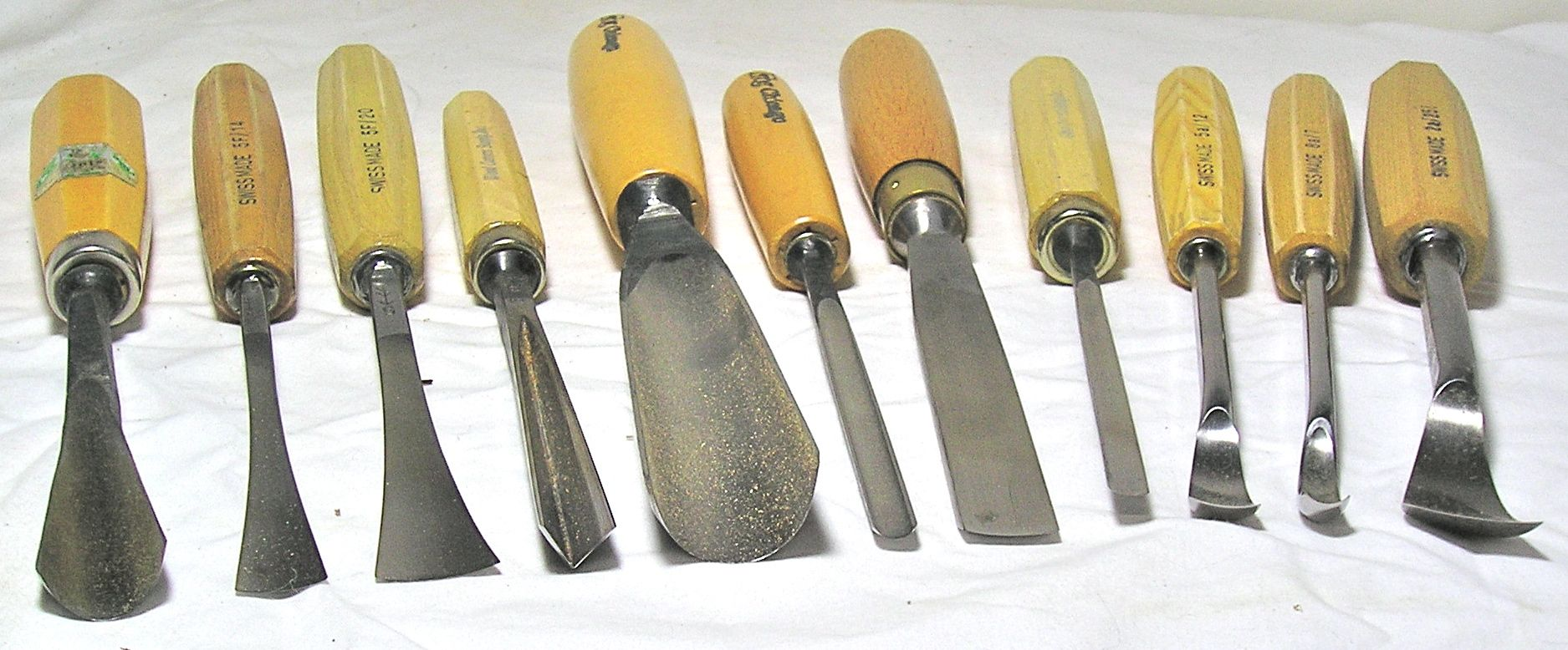 A selection of wood carving gouges and chisels.